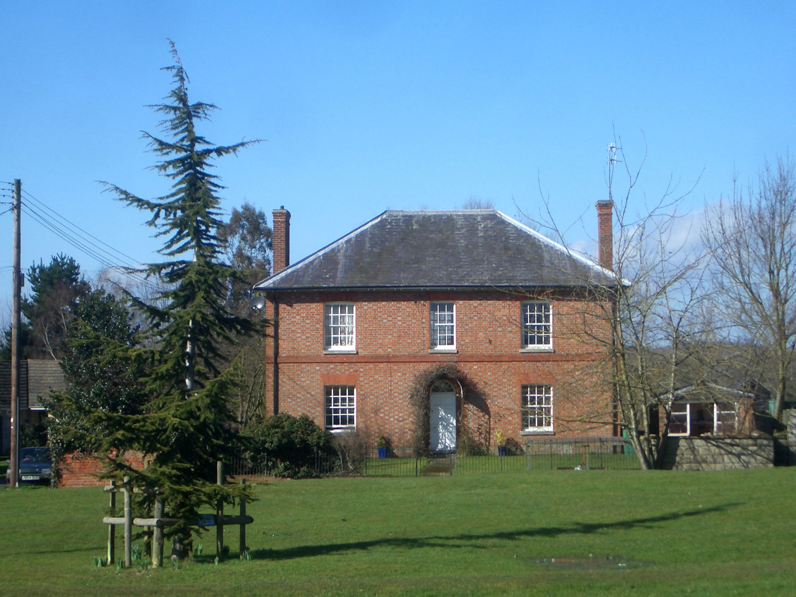 House in Copson Lane, Stadhampton, Oxfordshire, seen from east-southeast